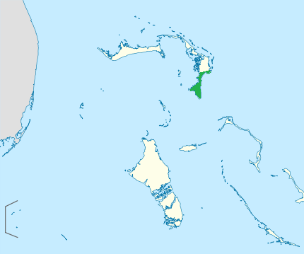 Location map of the Bahamas Equirectangular projection, N/S stretching 105 %. Geographic limits of the map: * N: 27.5° N * S: 20.7° N * W: 80.7° W * E: 70.8° W